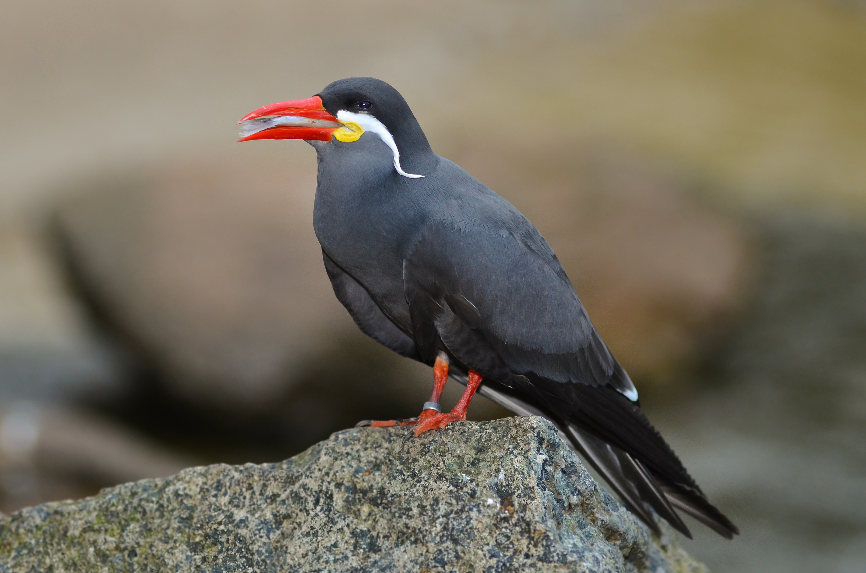 Inca Tern (Larosterna inca) at Weltvogelpark Walsrode (Walsrode Bird Park, Germany)